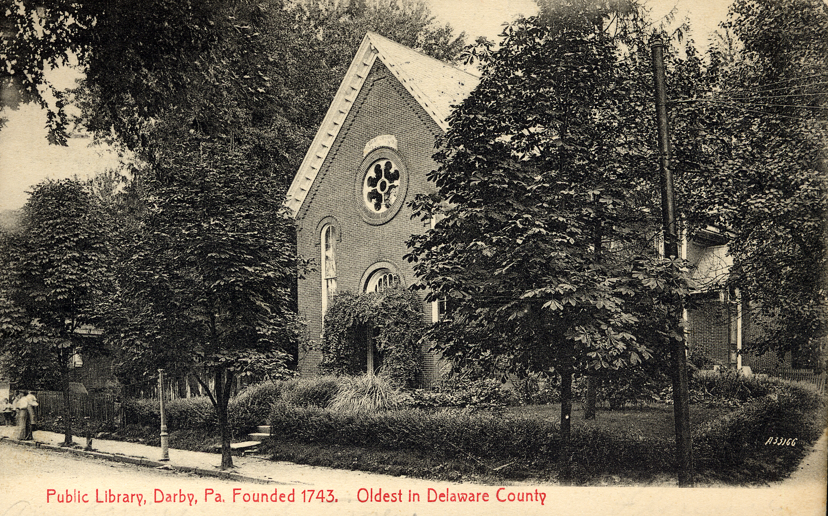 Darby Free Library in Darby, Pennsylvania on a c. 1905 postcard. The date is confirmed by the linking website and by the "red letter" postcard format popular about that time. See also the fashions in the lower left hand corner.